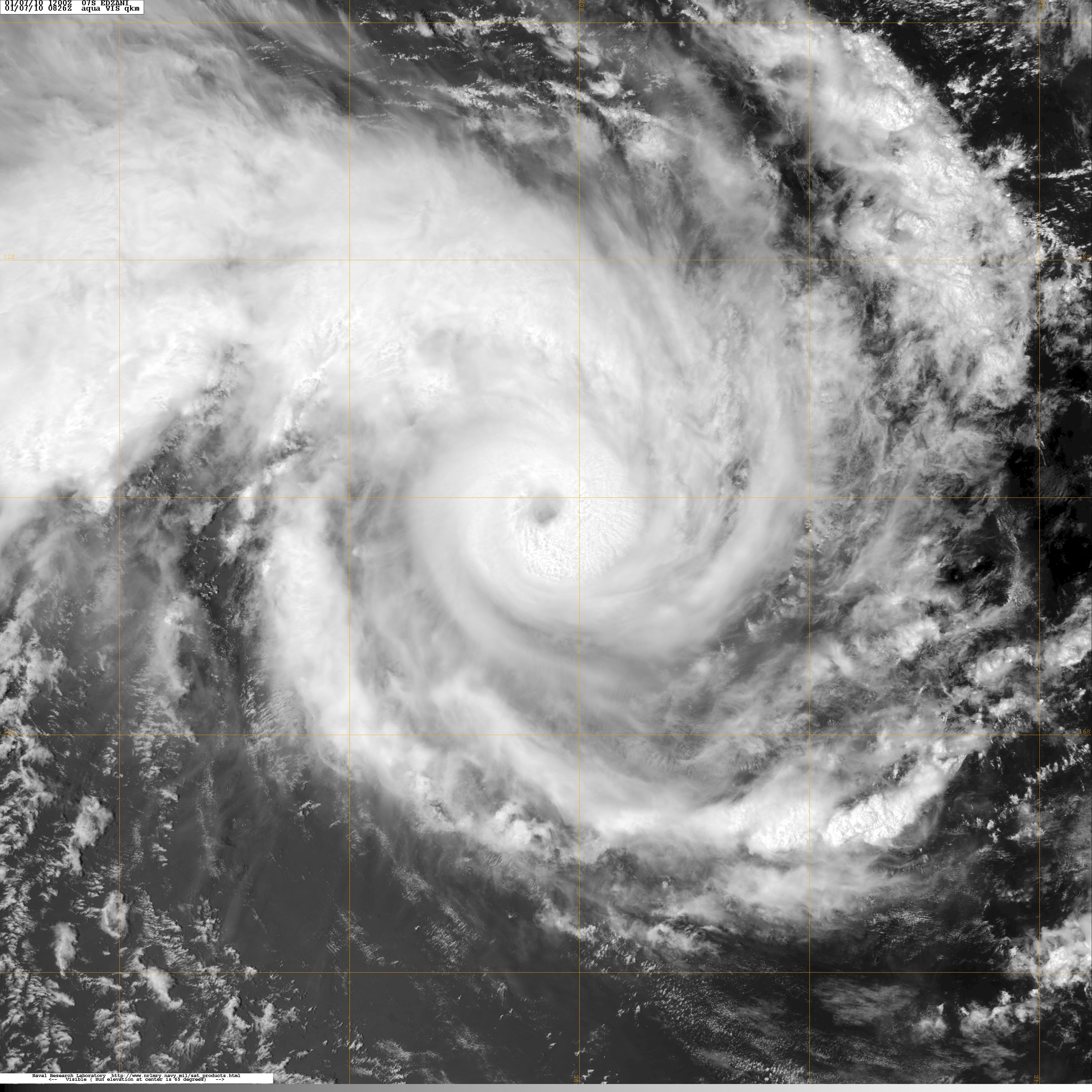 Tropical Cyclone Edzani, in the SW Indian Ocean on 7 January 2010. Visible light photograph from AQUA satellite.